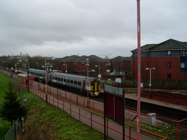 Possilpark and Parkhouse railway station Original description: Possilpark and Parkhouse Station The modern station in Possil, just down the road from the old station.